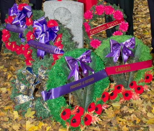 Since 2009, Sikh members of the Canadian Forces (CF) have attended the annual Sikh Remembrance Day service which is held at the Mount Hope Cemetery in Kitchener, Ontario. This cemetery holds the only military grave in Canada belonging to a Sikh soldier, Private Bukan Singh who fought in World War I and died in 1919. This photo of his gravestone was taken on November 11, 2012.